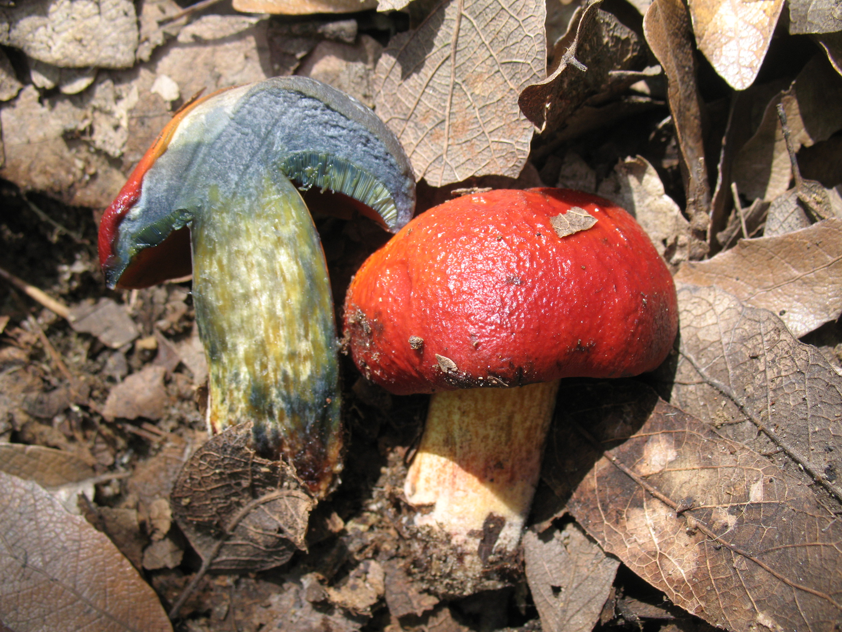 Boletus dupainii Boud. Image location: Jalisco, Mexico Cactu said this one was edible and sold in markets, but we didn’t try it. Recognized by sight: Stipe not reticulate, bright red viscid cap, staining blue, stipe with reddish hues and yellow at the apex, under Quercus For more information about this, see the observation page at Mushroom Observer.